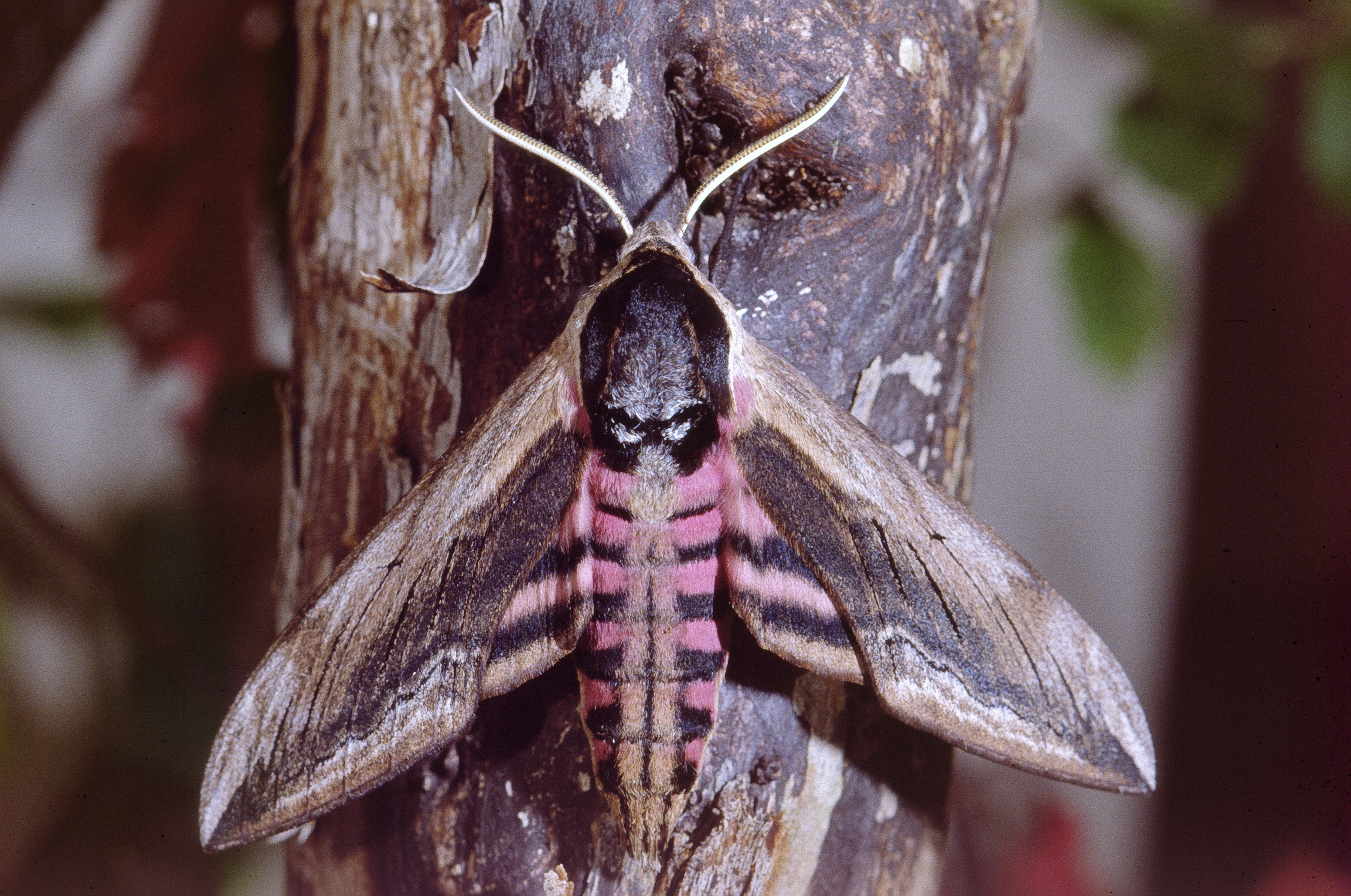 Sphinx ligustri taken in Calvados in France